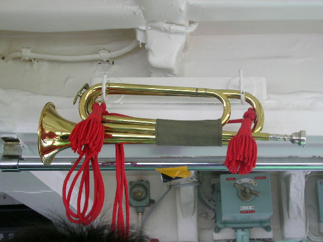 The signal trumpet with which the bridge of DE226 ISHIKARI equipped.